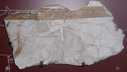 Minoan style fresco, found at Alalakh, Oxford, Ashmolean Museum